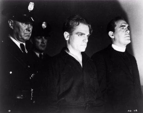 James Cagney & Pat O'Brien in American gangster film Angels with Dirty Faces (1938). See also film still. No copyright notice.